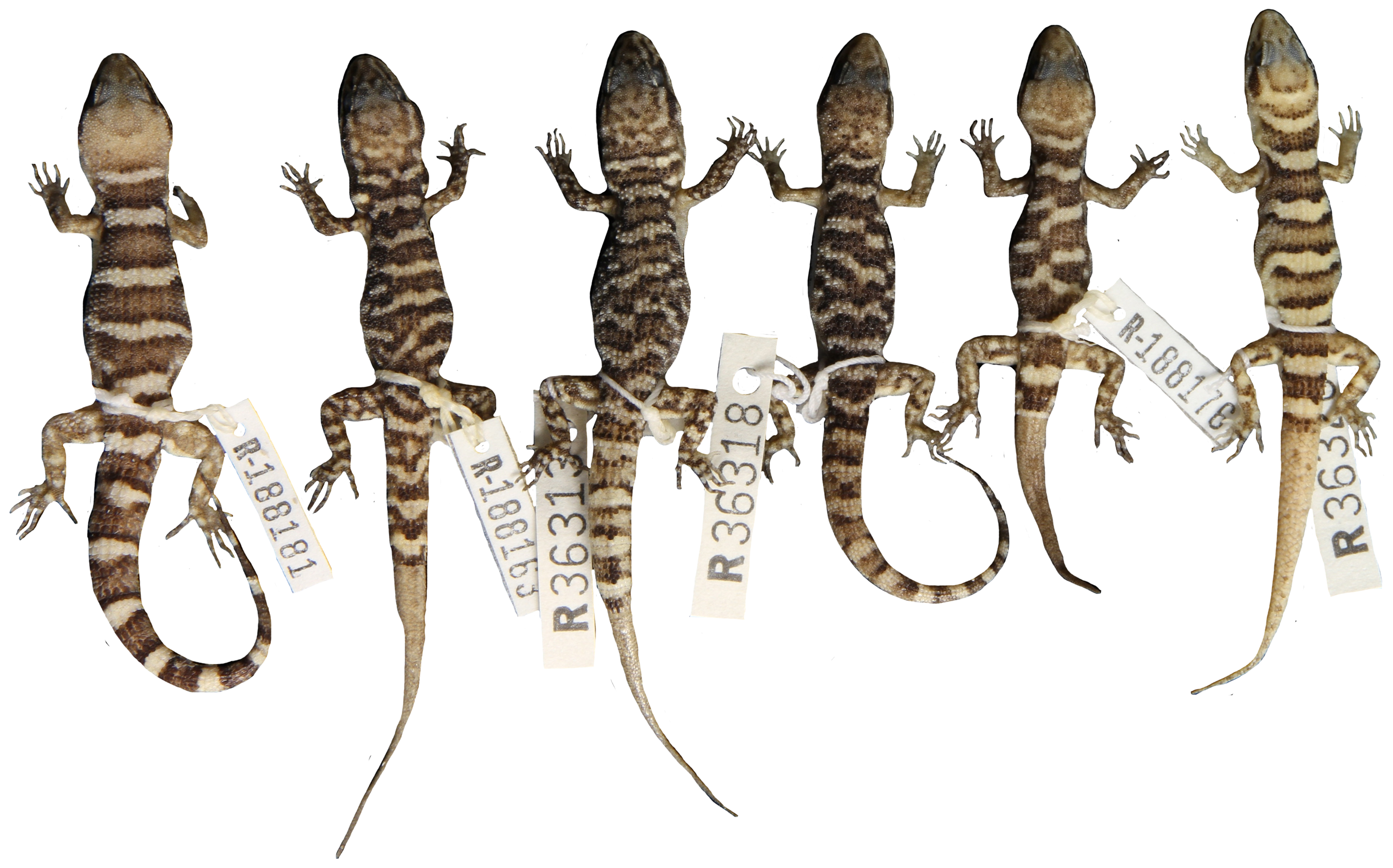 Variation of dorsal pattern within sympatric Heteronotia binoei in central Australia.